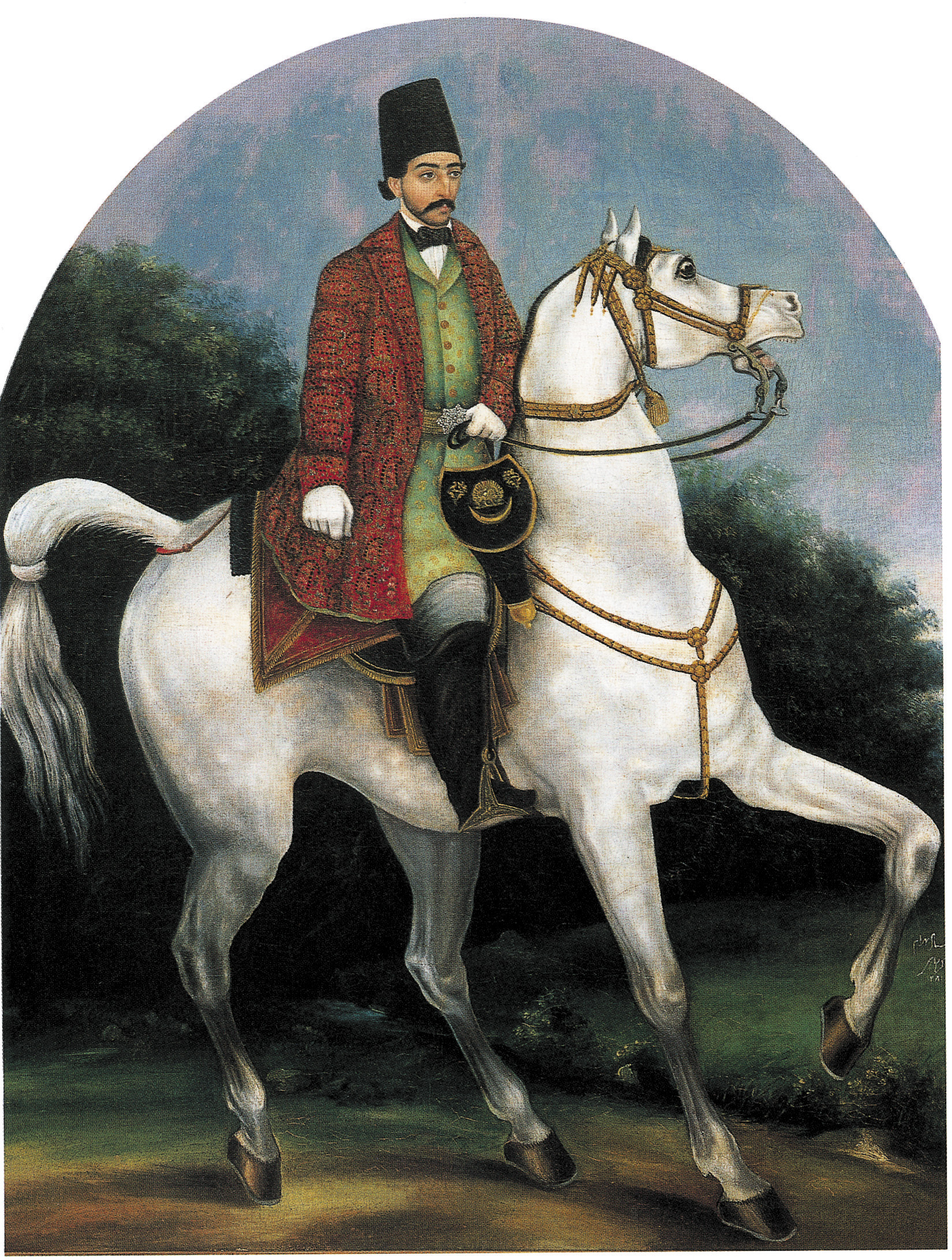 Eyn ol-Molk, chief of the Qajars (tribe)